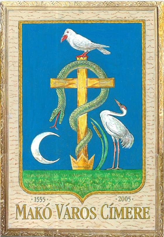 Coat of arms of Makó, Hungary.